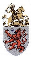 Coat of arms